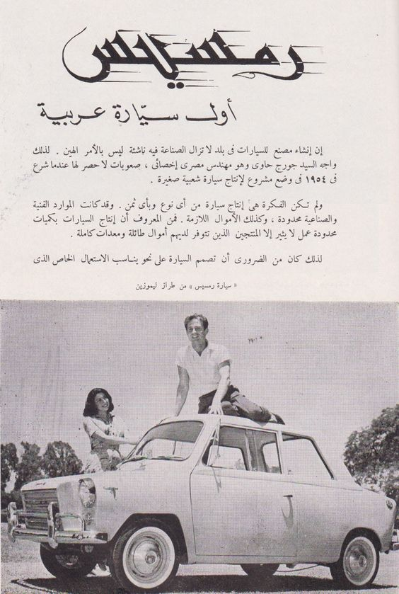 Fiat Ramsis car production project was started in 1954